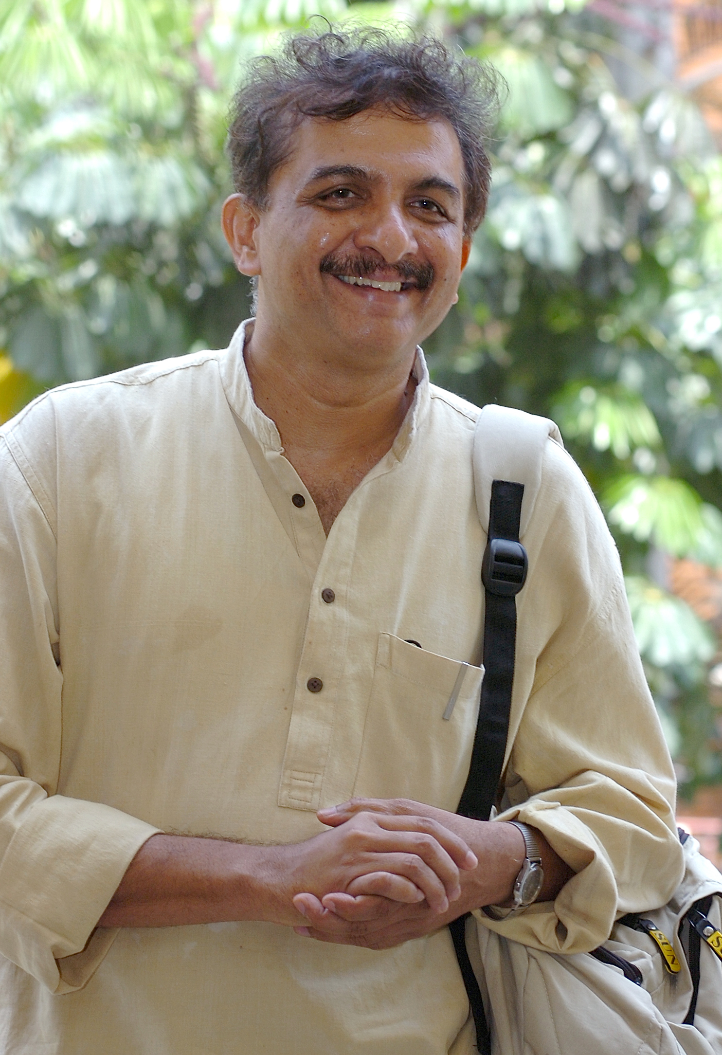 This is an image of the Kannada lyricist and writer Jayanth Kaikini.